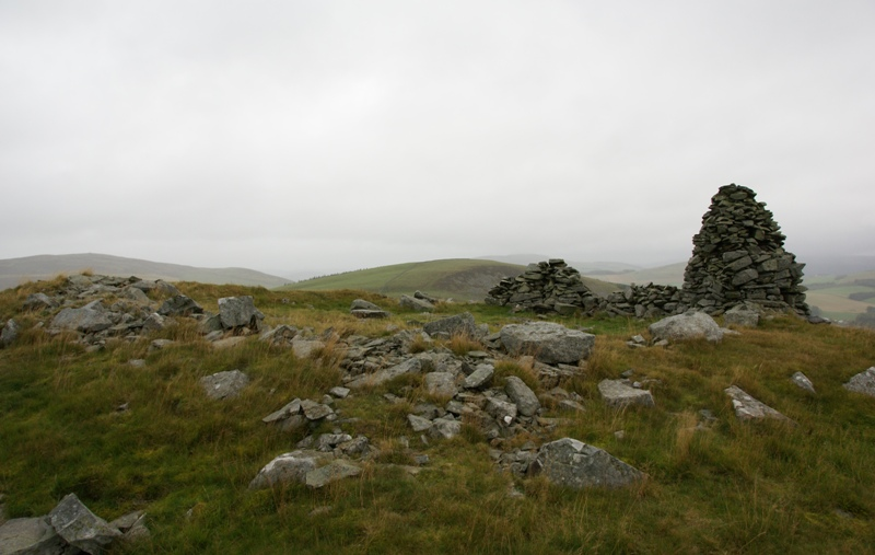 Bow Broch, Stow, Scottish Borders, Scotland. View from north.